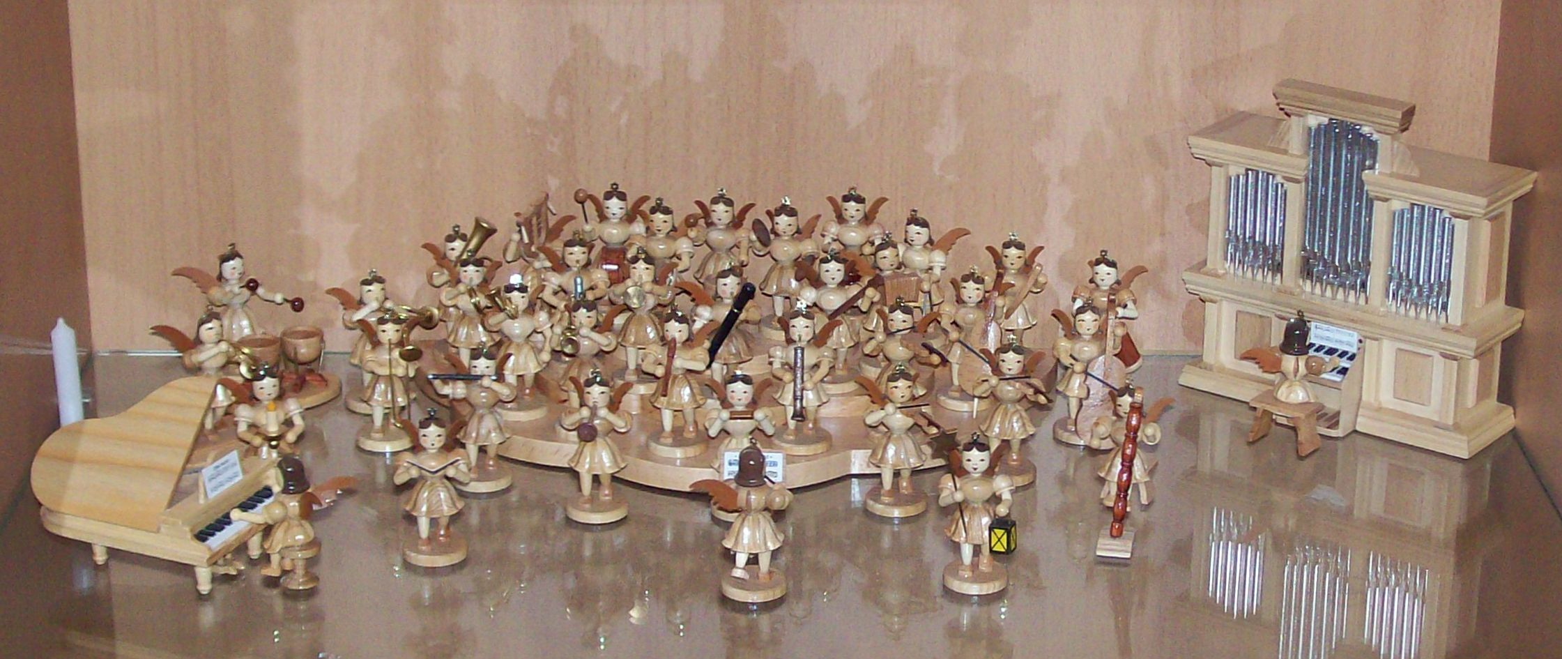 Wooden Christmas angels forming an orchestra; German Christmas art